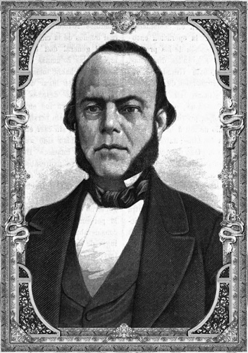 Self-portrait of José Isidro Yañez, Lithograph (1870-1907).